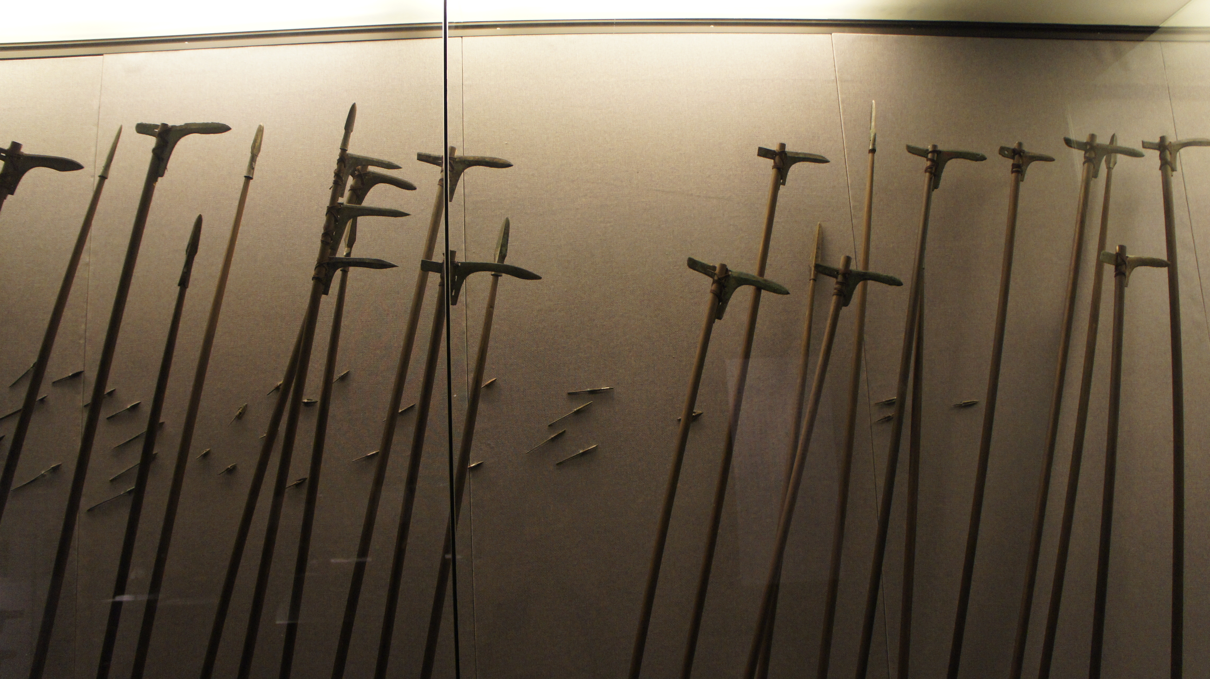 Ge (戈), most common ancient Chinese weapon.